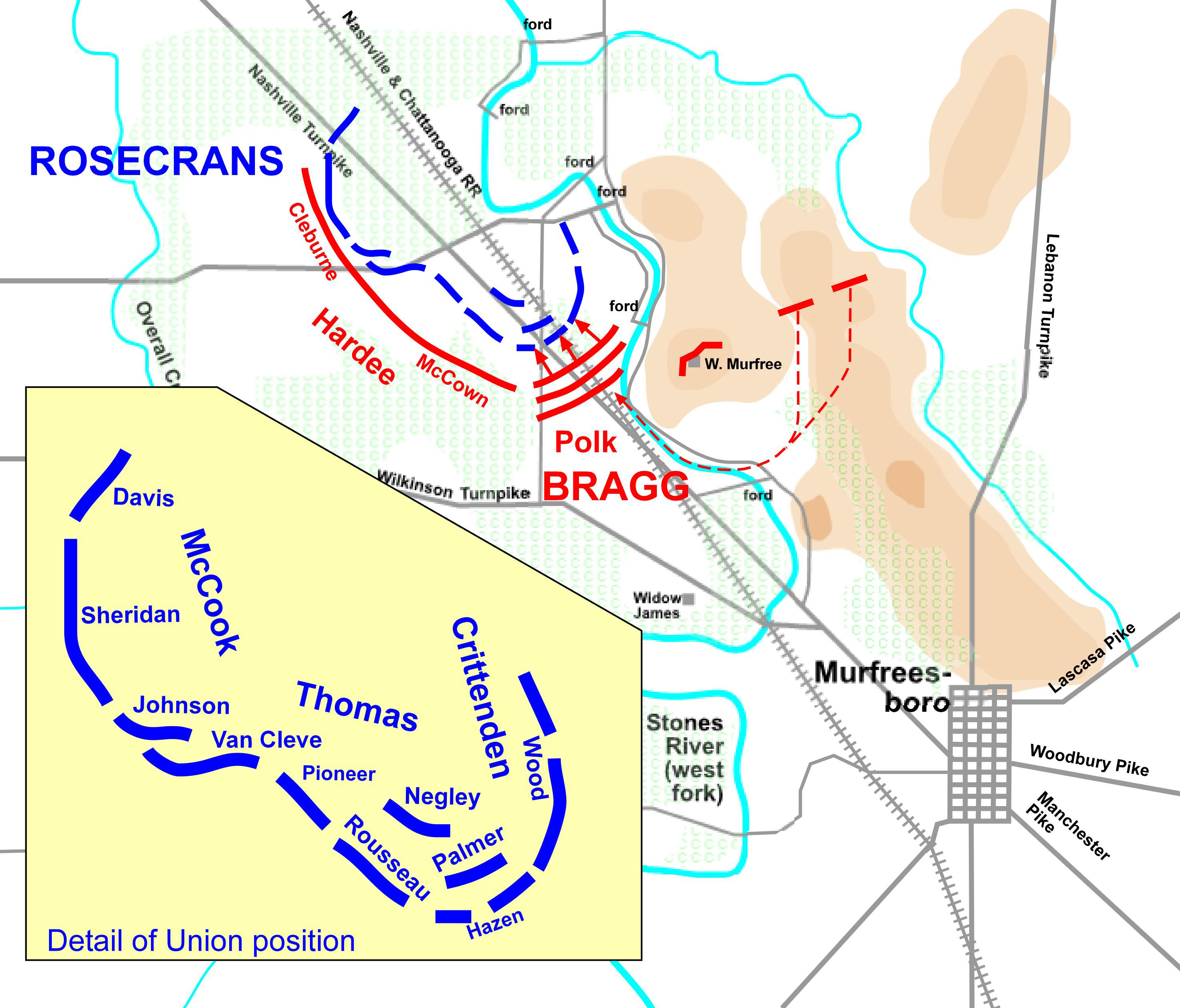 Battle of Stones River, 16:00 Dec 31, 1862. Drawn by Hal Jespersen in Macromedia Freehand. Source file available in